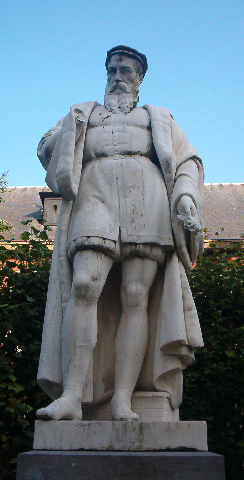 The statue of Rembert Dodoens in the botanical garden in Mechelen.